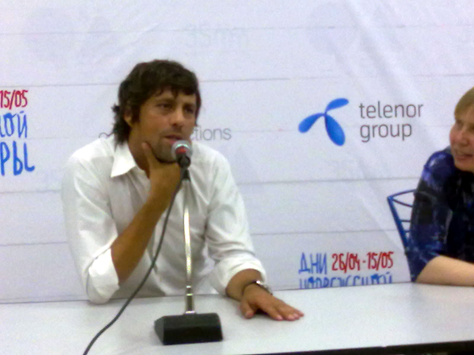 Thomas Cappelen Malling, Norwegian author and director. 2nd festival of Norwegian culture in Moscow (the opening night of his movie "Norwegian ninja").